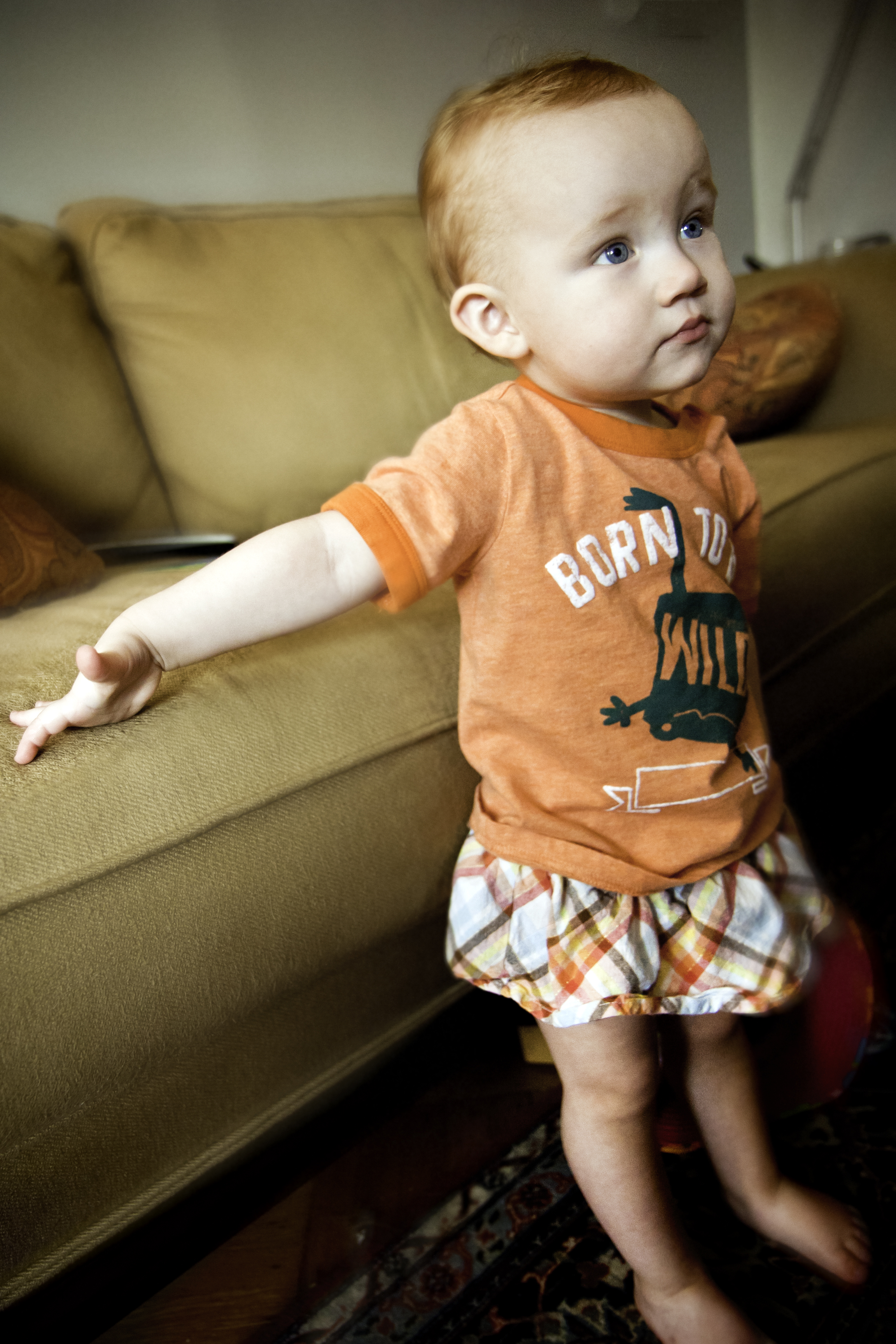 A little girl leaning against a sofa.